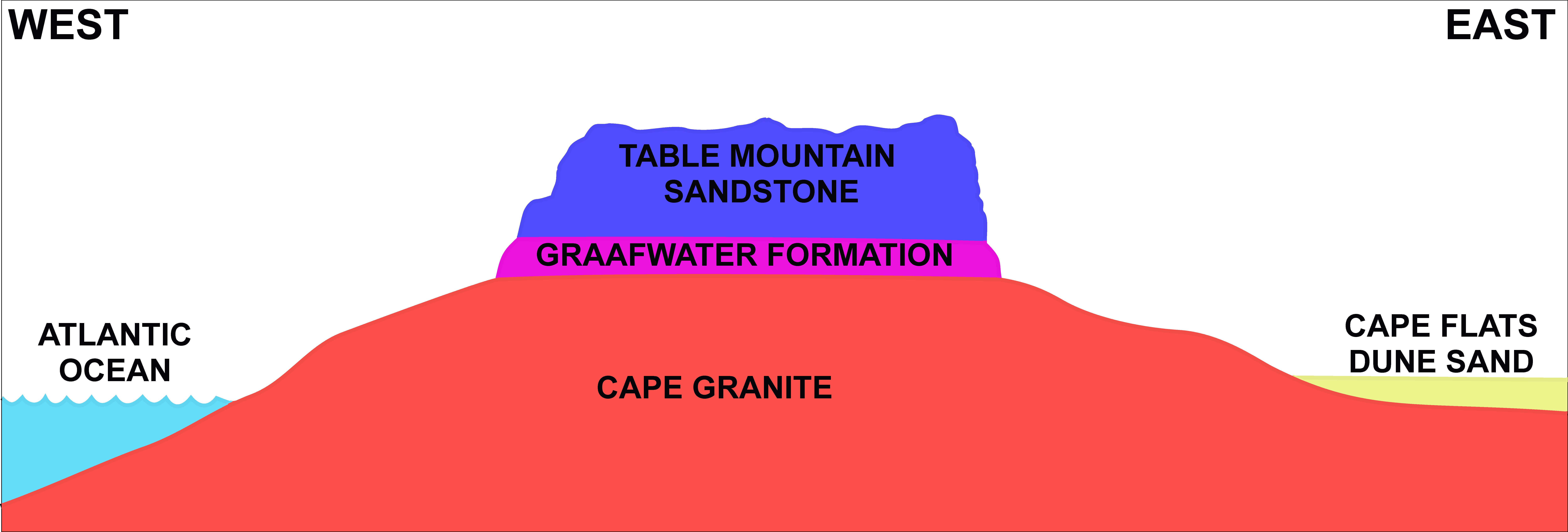 A schematic W-E geological cross section of the Cape Peninsula, roughly based on a section through the Back table just south of Table Mountain. Not to scale.